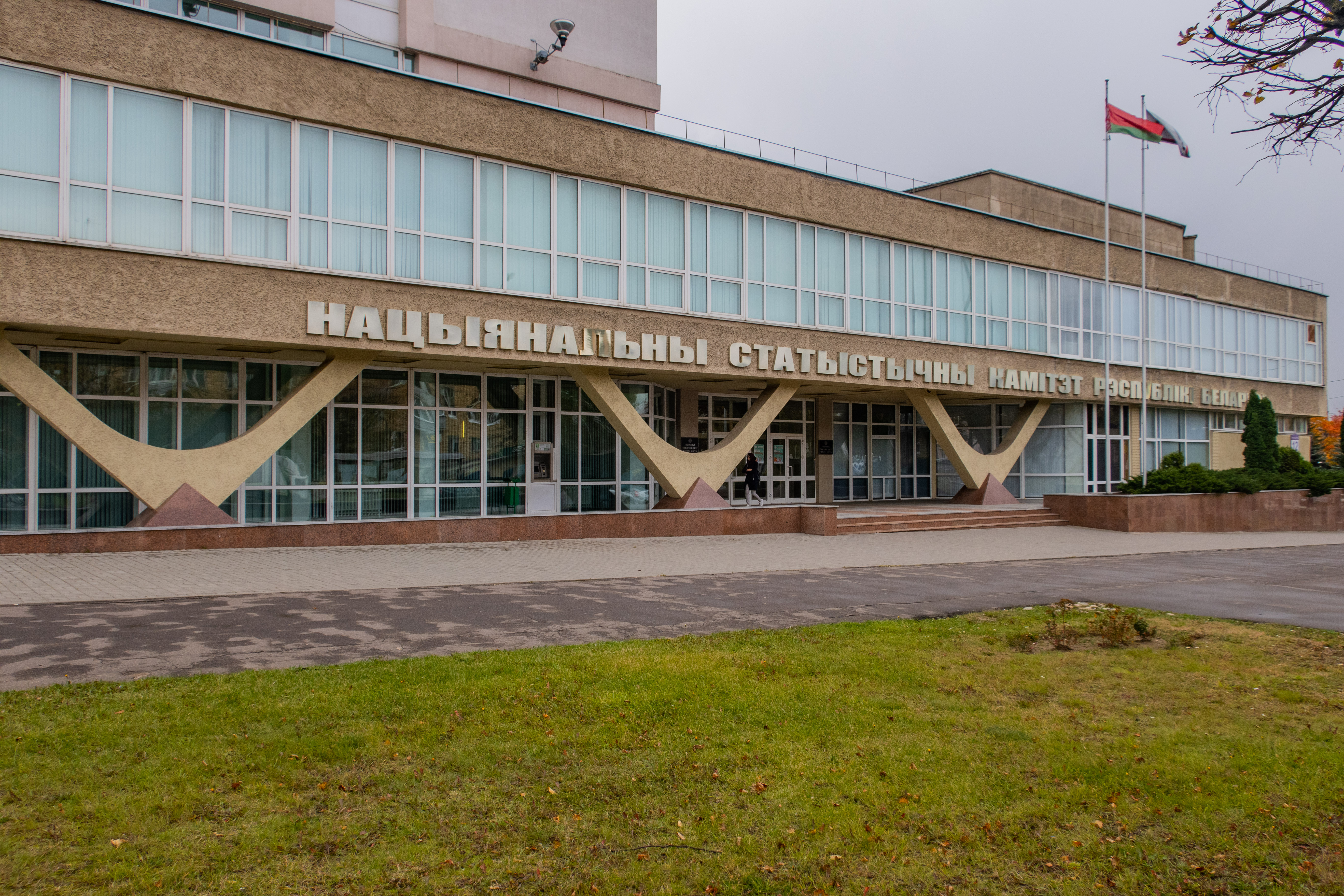 National Statistics Committee of Belarus. Minsk, Belarus